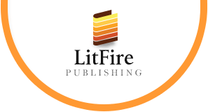 Image of Litfire Publishing